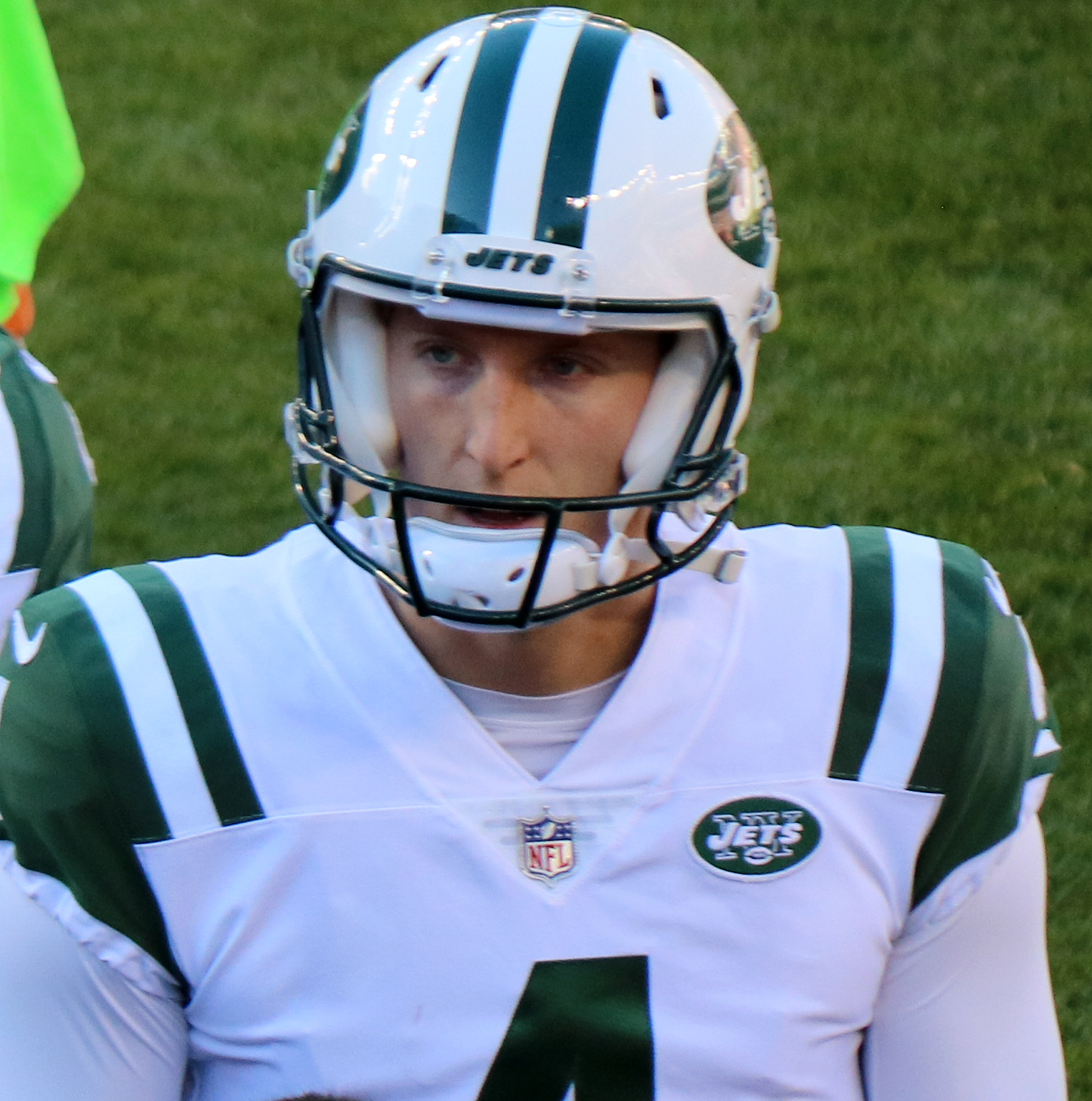 Lac Edwards, a player on the National Football League.